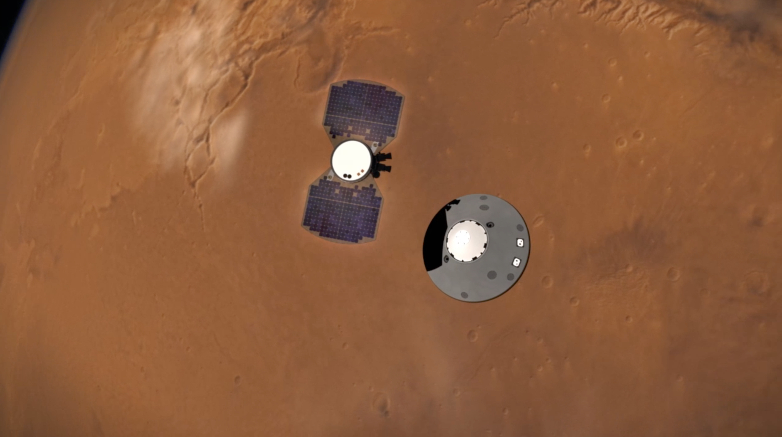 This illustration shows NASA’s InSight lander separating from its cruise stage as it prepares to enter Mars’ atmosphere. The InSight lander is on the right, tucked inside a protective heat shield and back shell. The cruise stage with solar panels is on the left.